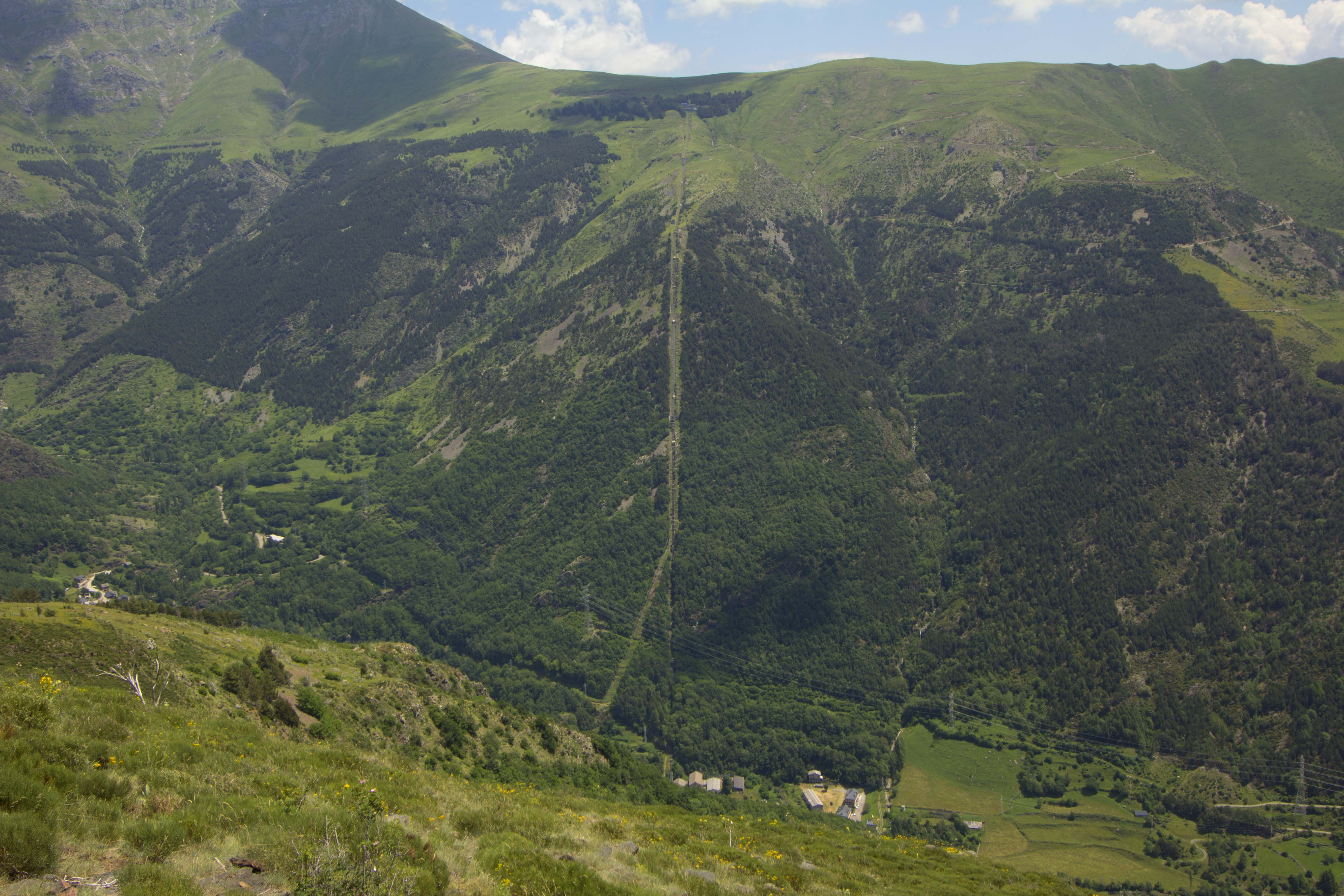 Penstock of Capdella hydroelectric power plant (Catalan Pyrenees)